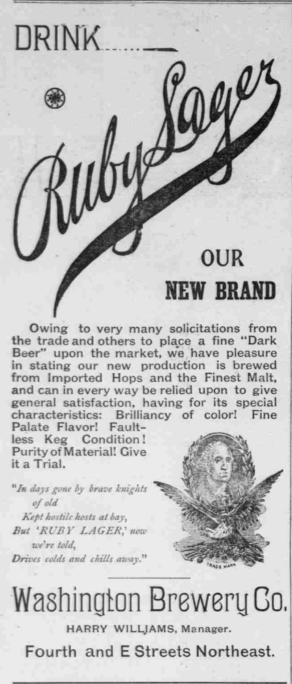 Ruby Lager Advertisement - Washington Brewery Company in 1895